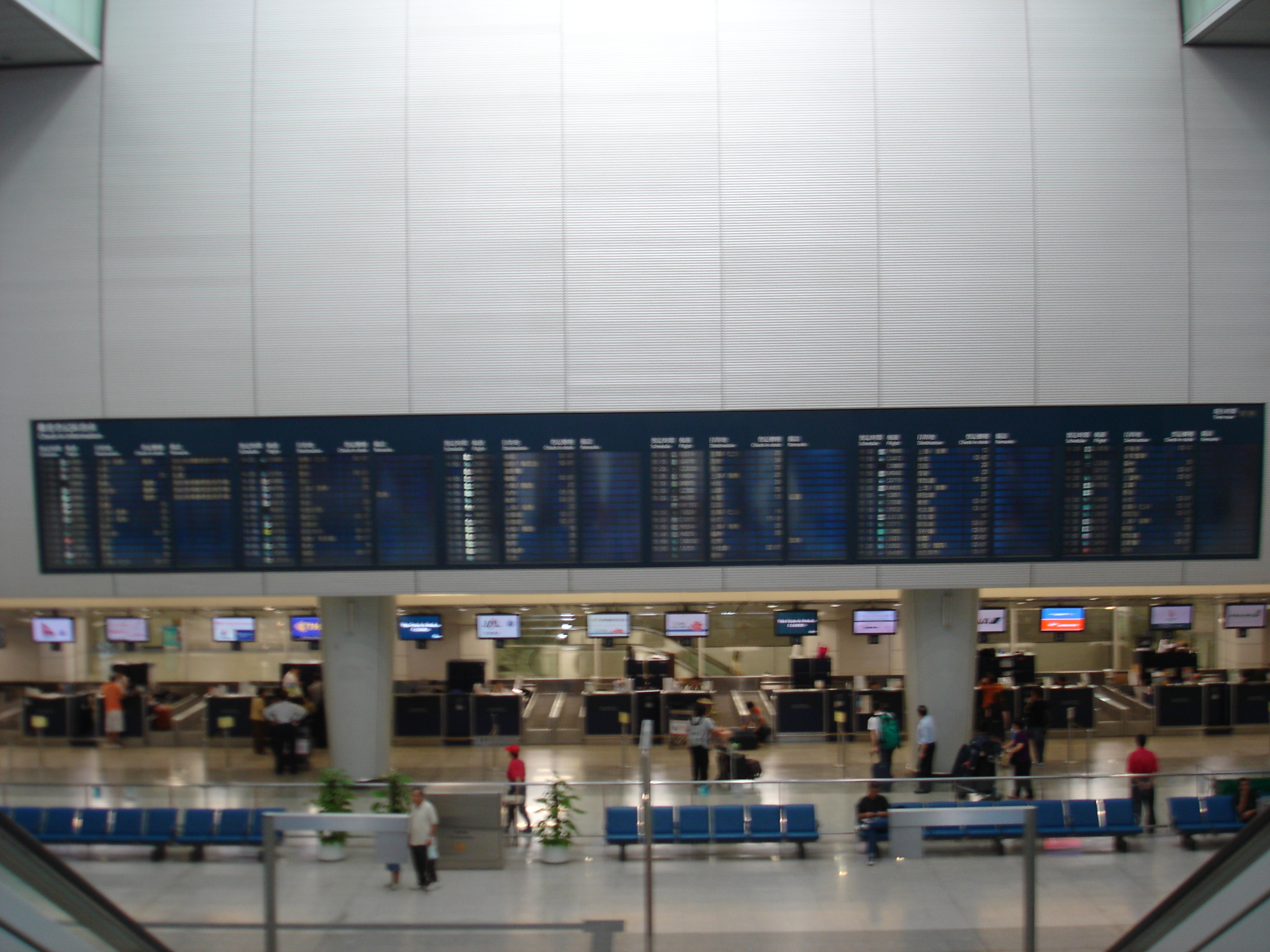 View of Airport Express from Elements Mall